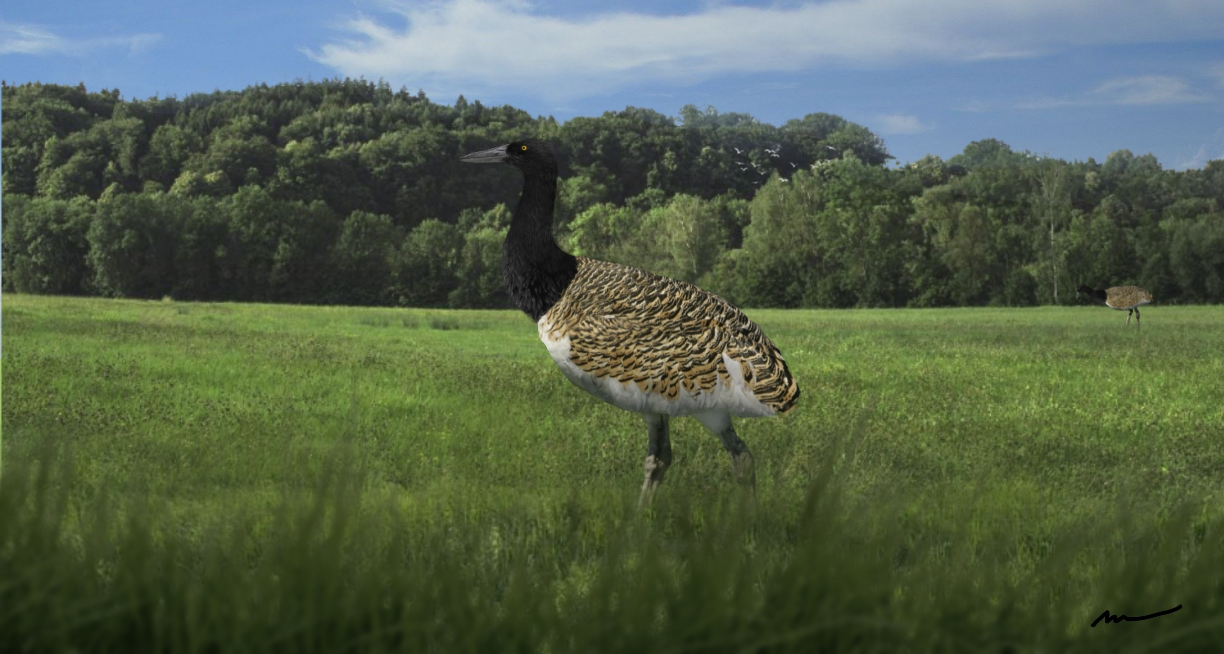 Depiction of Ergilornis in it's habitat